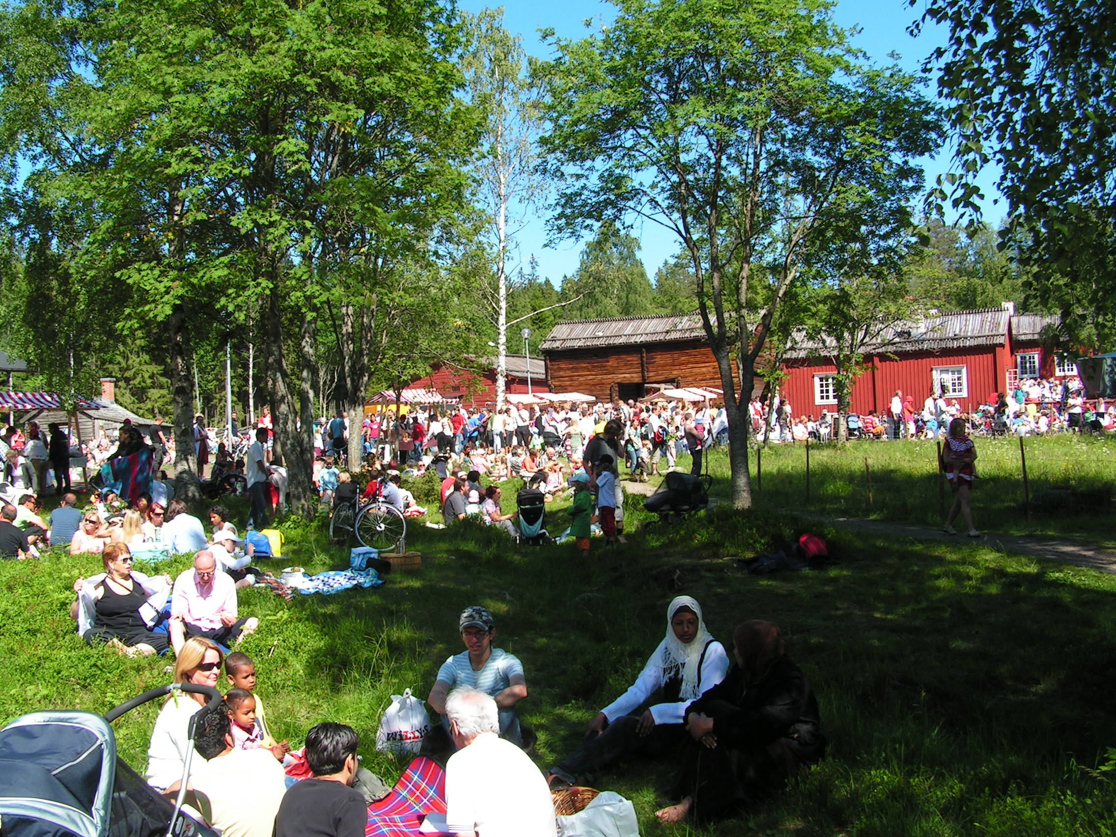 Midsummer celebration at the open air museum Gammlia, Umeå, Sweden.